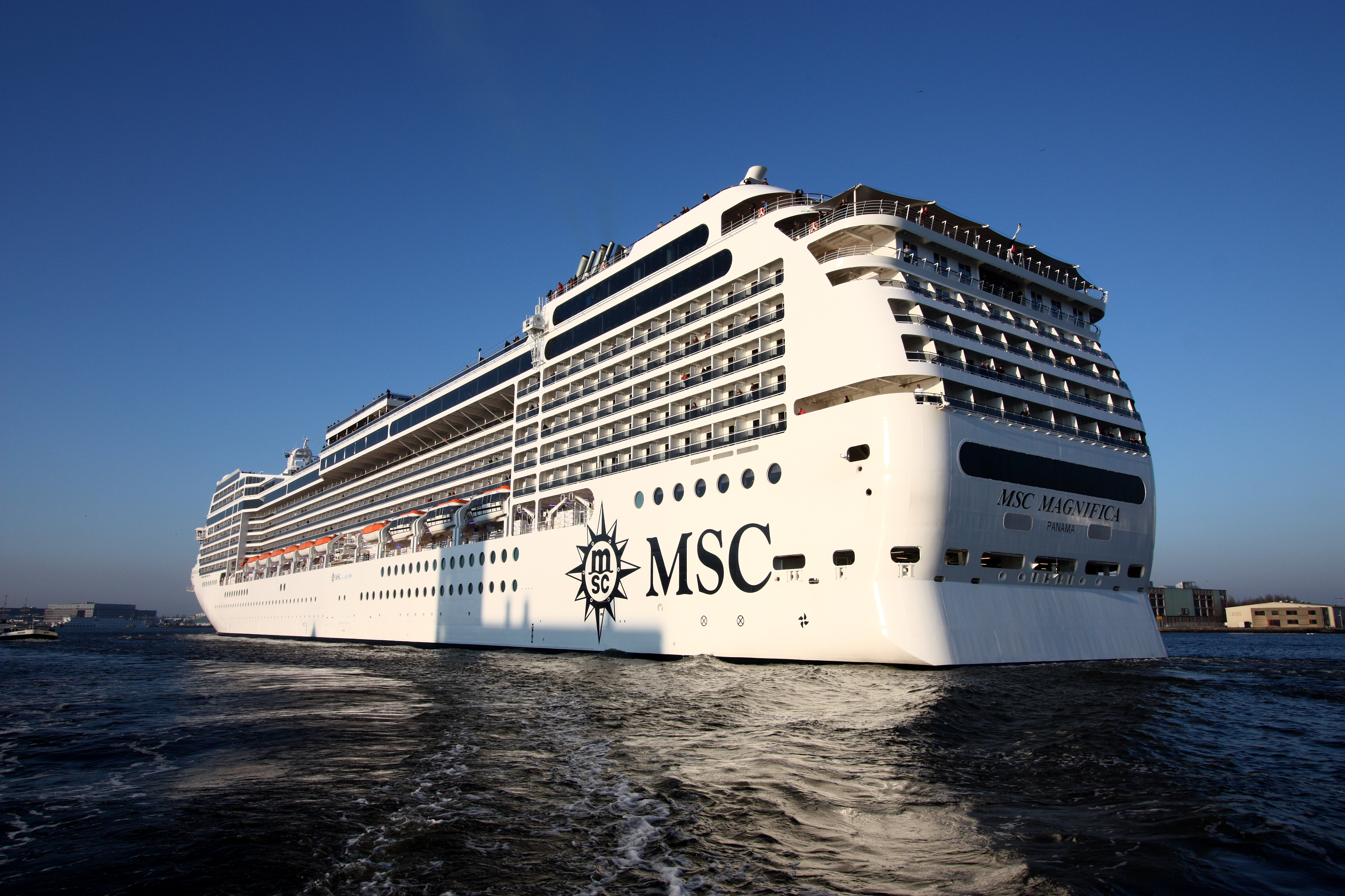 Sometimes you have to have some luck.. I was doubting to take the ferry, or wait for the next, I took the first, and this baby came by... luckily I had my camera with my brothers 10-22 with me :-) nice detail: this was the maiden voyage !!